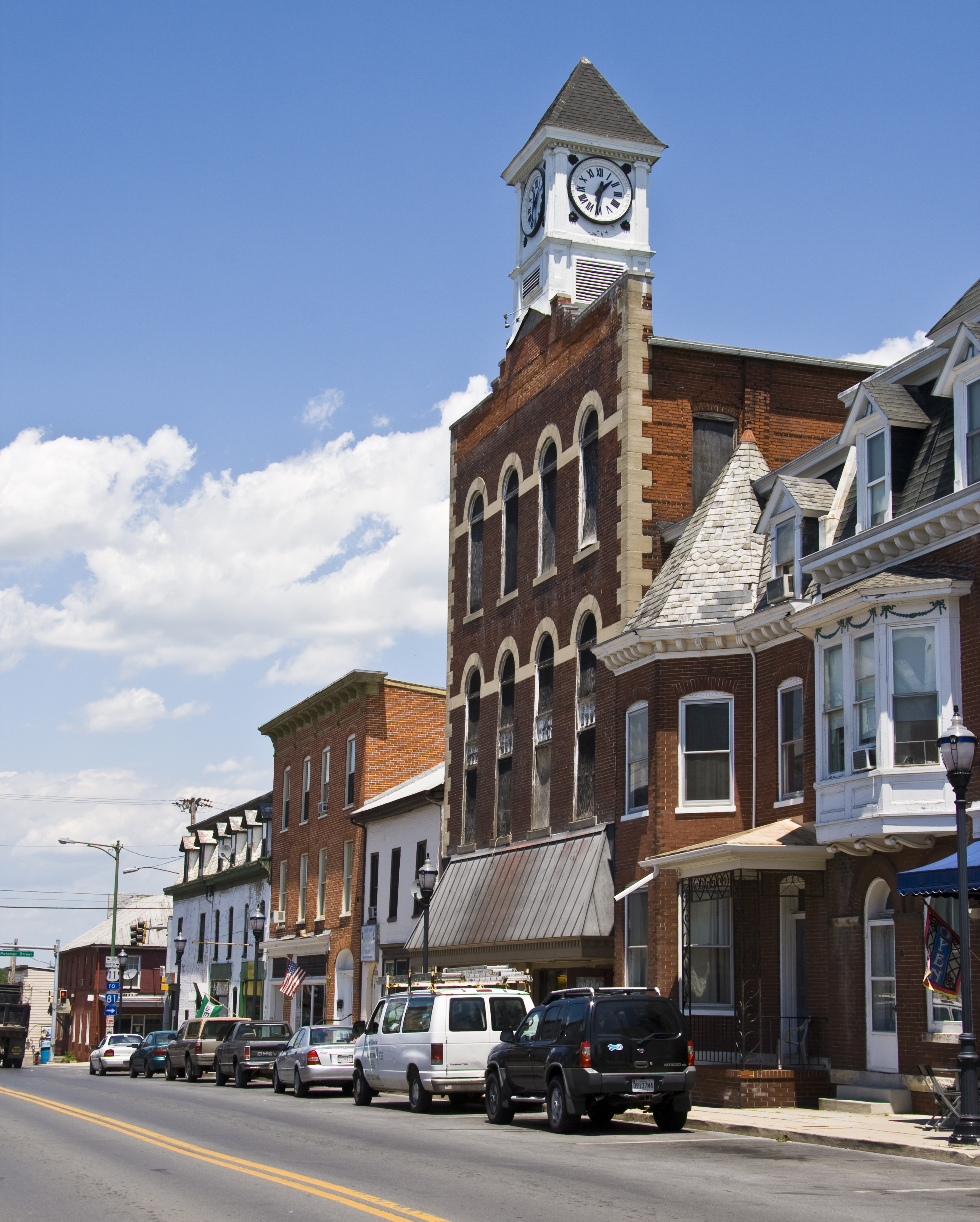 South Conococheague Street, Williamsport, Maryland, USA